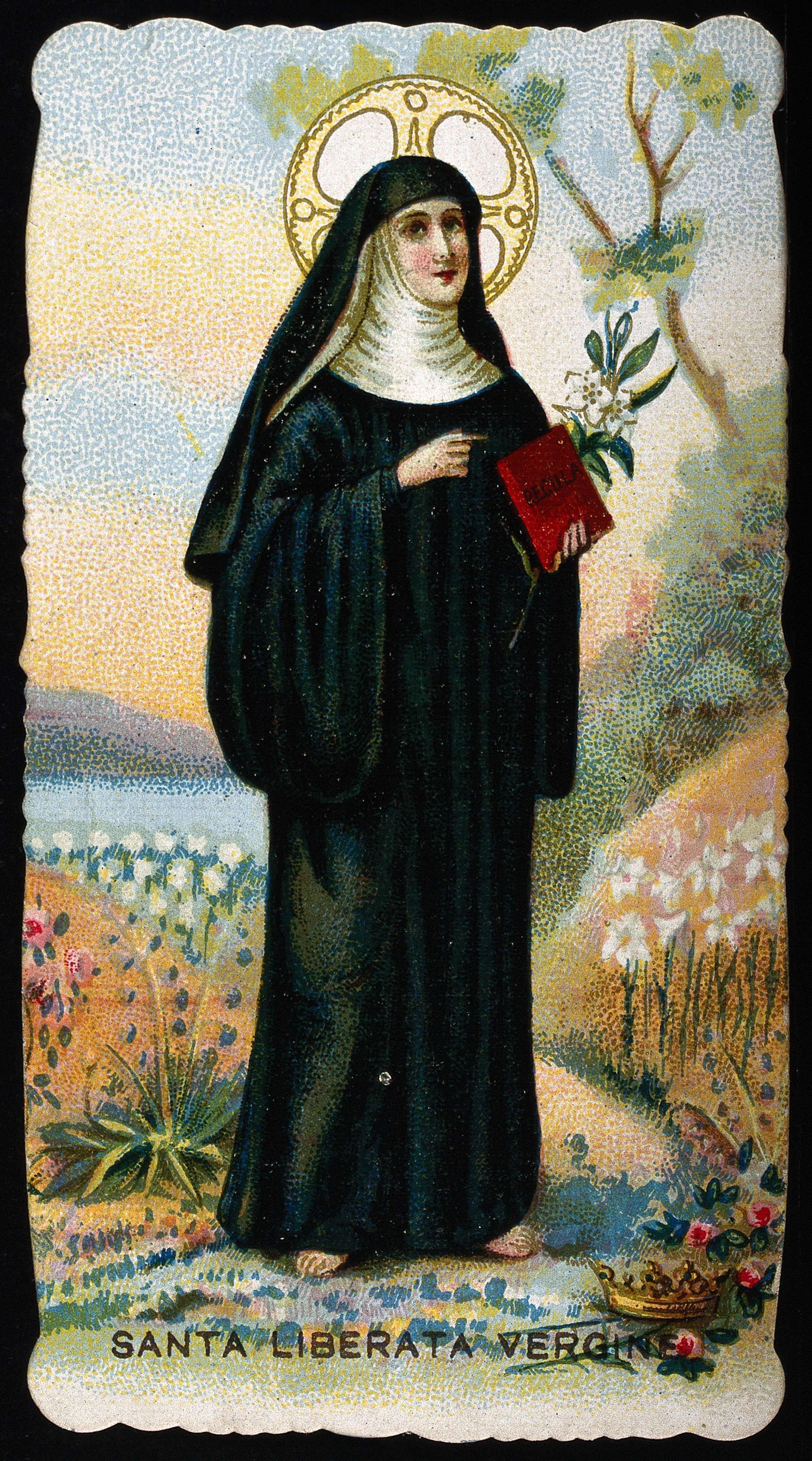 Saint Liberata. Colour lithograph, 1919. Iconographic Collections